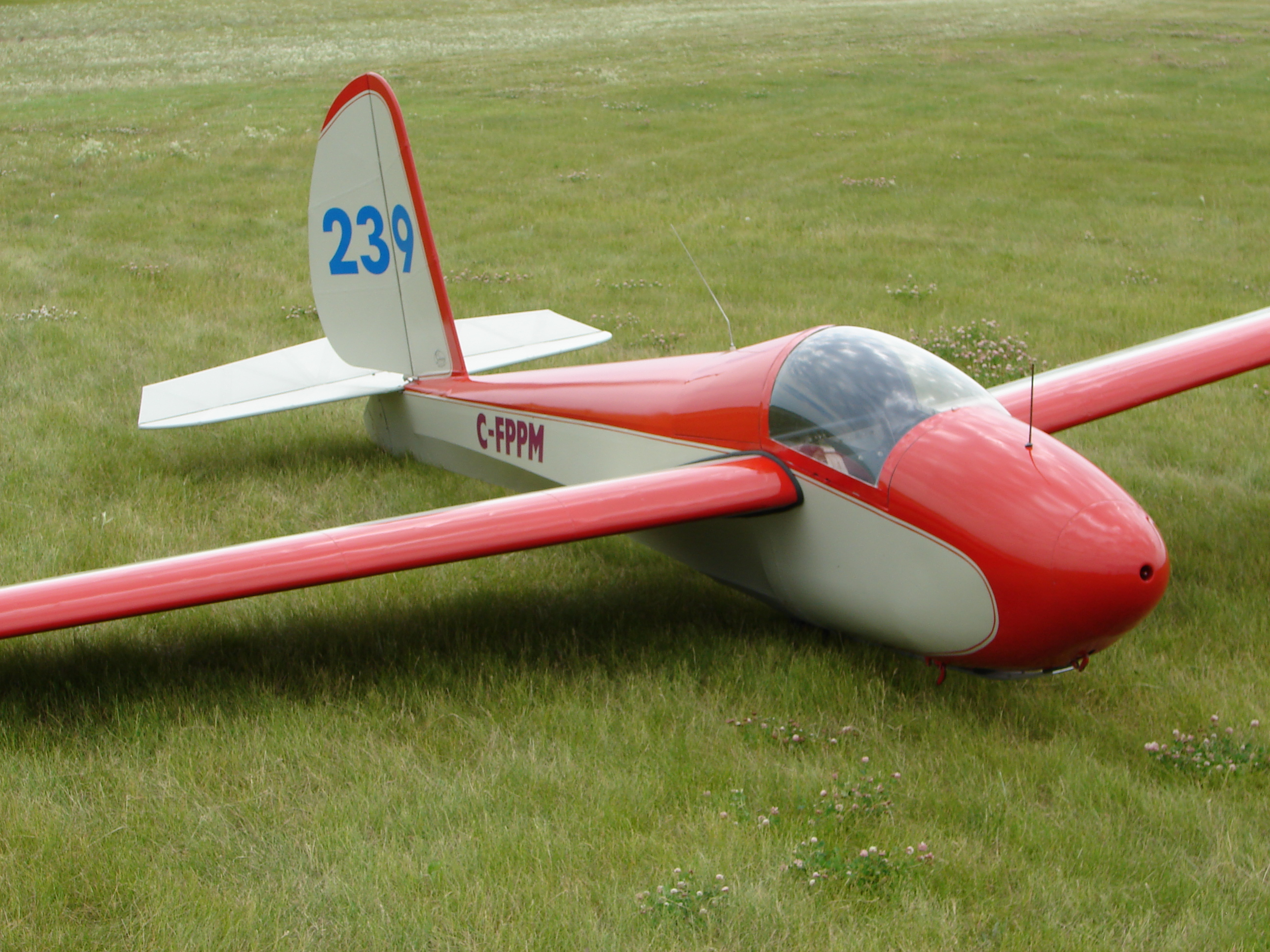 Schweizer SGS 1-26 B sailplane (C-FPPM) after having been rebuilt. With care old sailplanes can have a long and useful life.